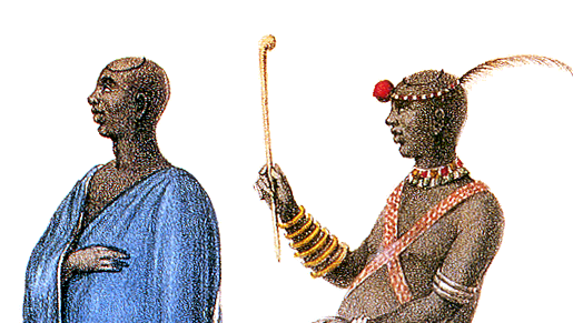 "Dingane in Ordinary and Dancing Dresses", by Captain Allen Francis Gardiner.